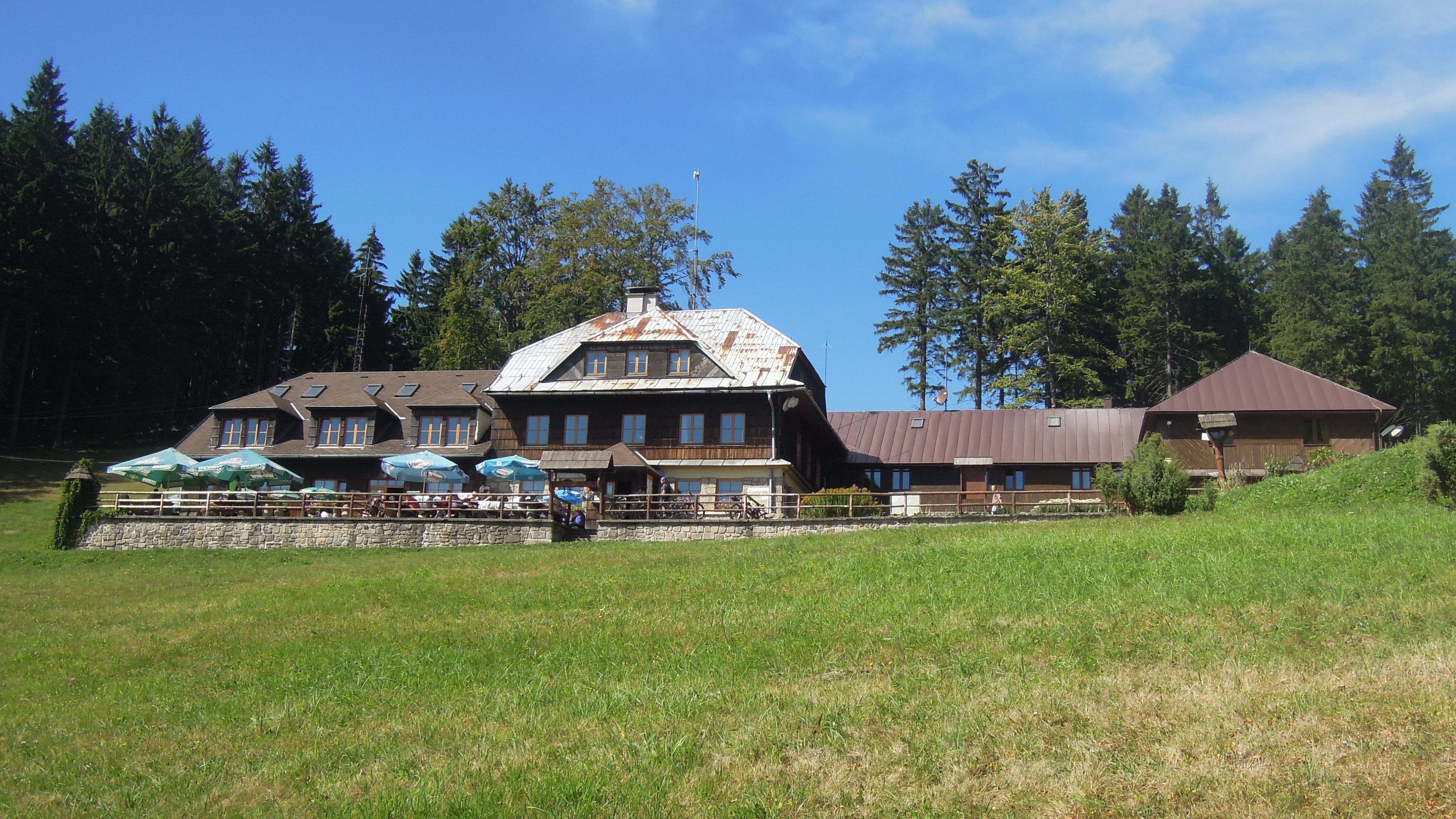 Chalet Vsacký Cáb near Vsetín, Vsetín District, Zlín Region, Czech Republic